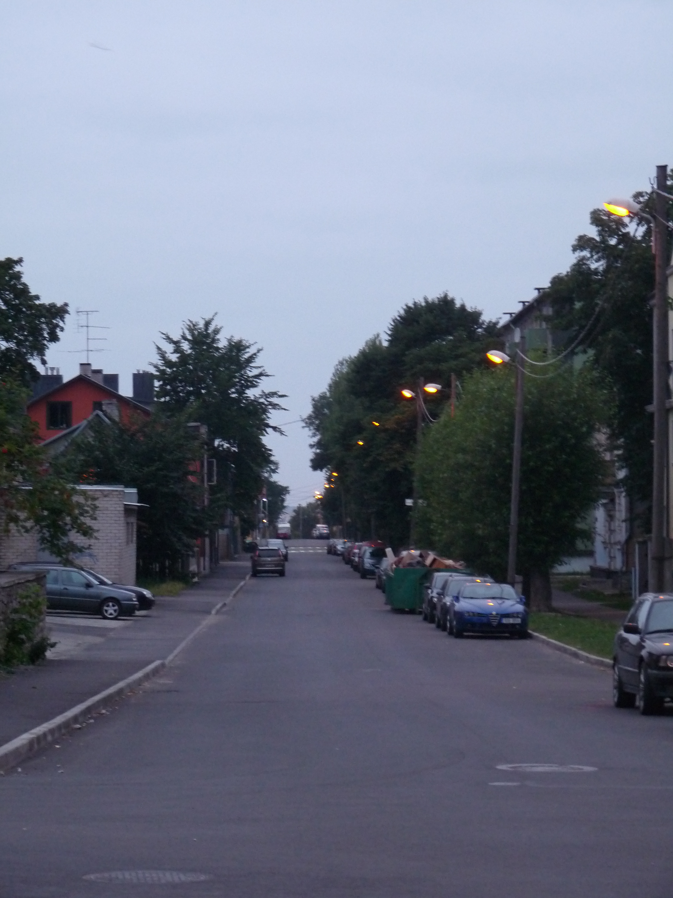 Kivimurru street in Tallinn, Estonia